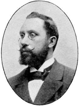 Image scanned from the book "Svenskt Porträttgalleri XX - Arkitekter, Bildhuggare, Målare m.fl. " ("Swedish Portrait Gallery XX - Architects, Sculptors, Painters, ") published 1901